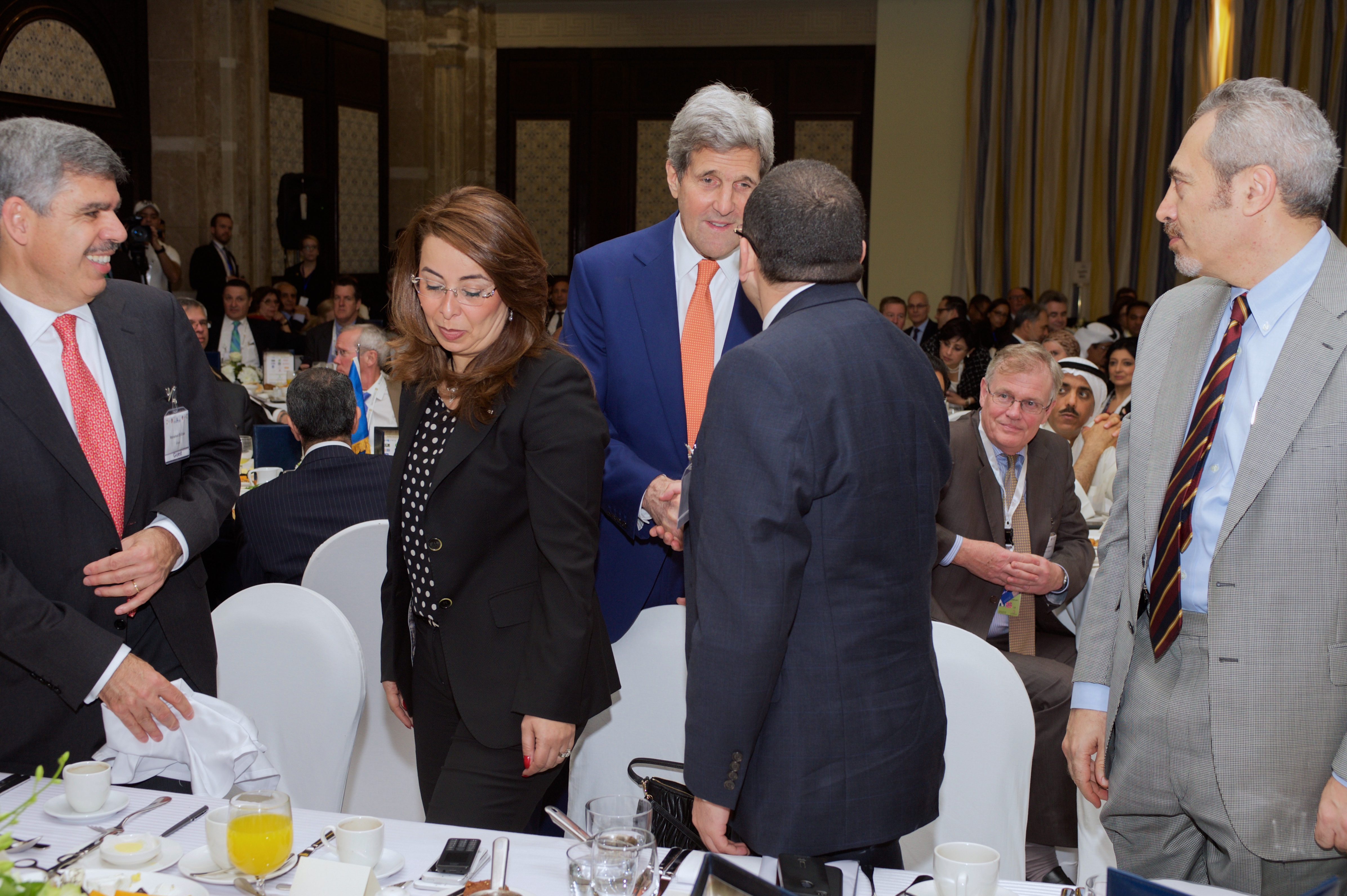 U.S. Secretary of State John Kerry greets American and Egyptian businessmen and women at an American Chamber of Commerce breakfast in Sharm el-Sheikh, Egypt, on March 13, 2015, before meetings with President Abdel Fattah al-Sisi, other regional leaders, and his attendance at an Egyptian development conference. [State Department Photo/Public Domain]